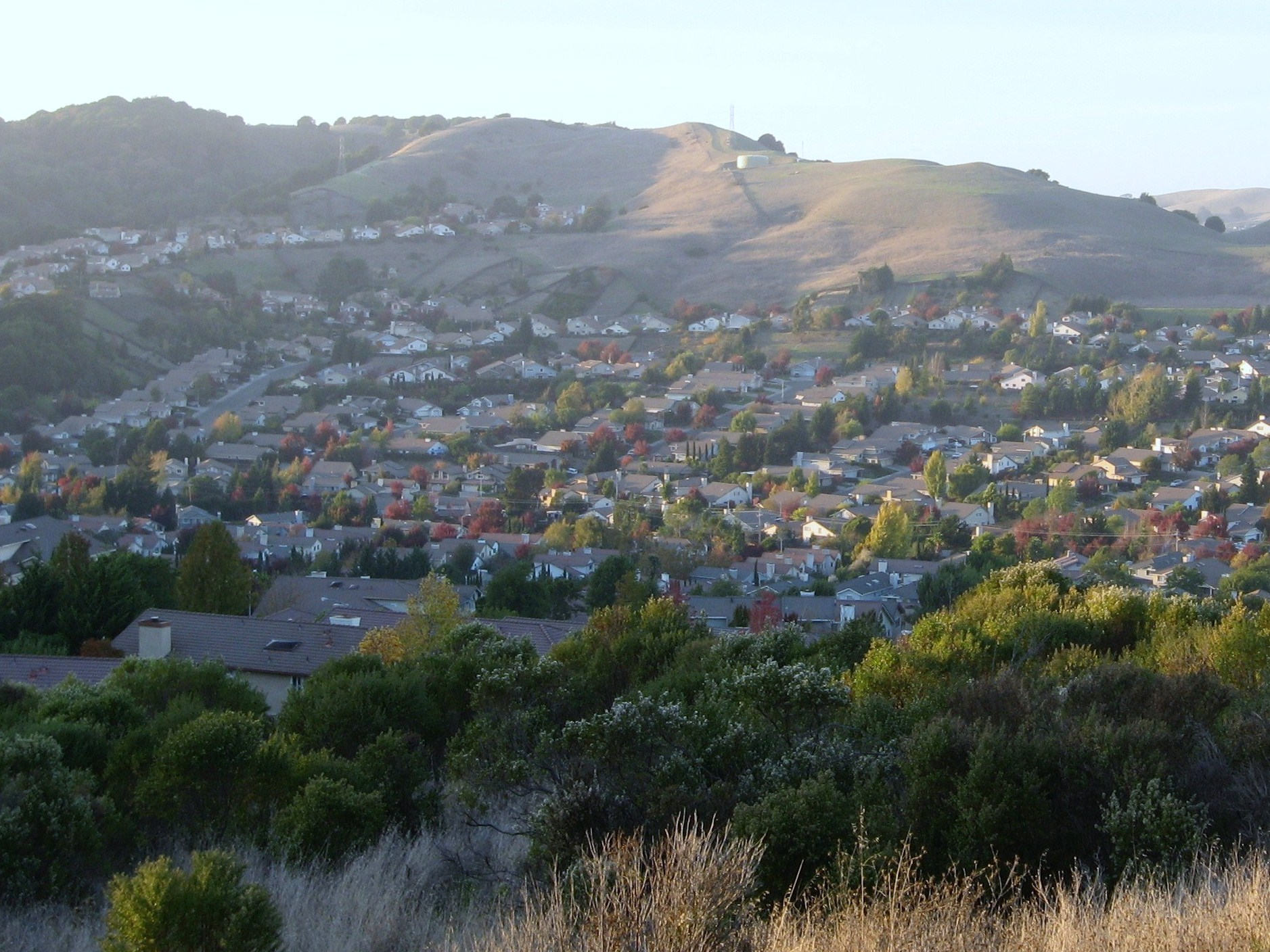 A view of Carriage Hills, Richmond, California, USA, from the north on a hazy October day.